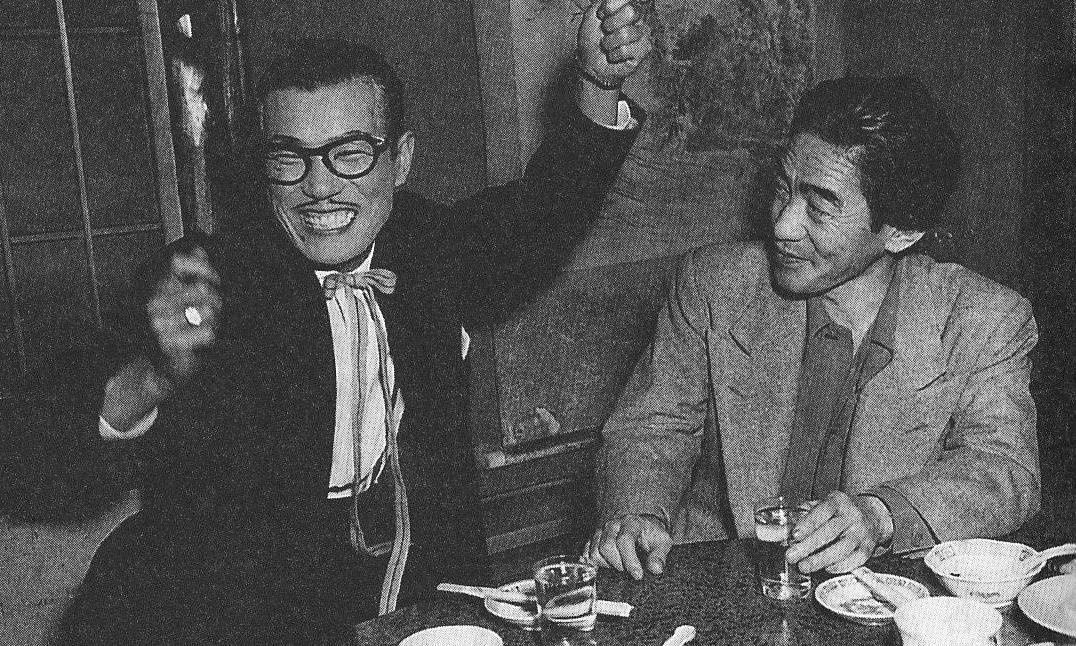 Tony Tani and Kenichi Enomoto at their drinking party.